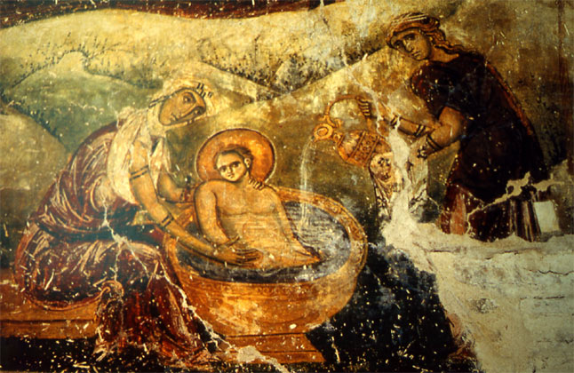 Midwife Salome (fresco in monastery of Latomou)